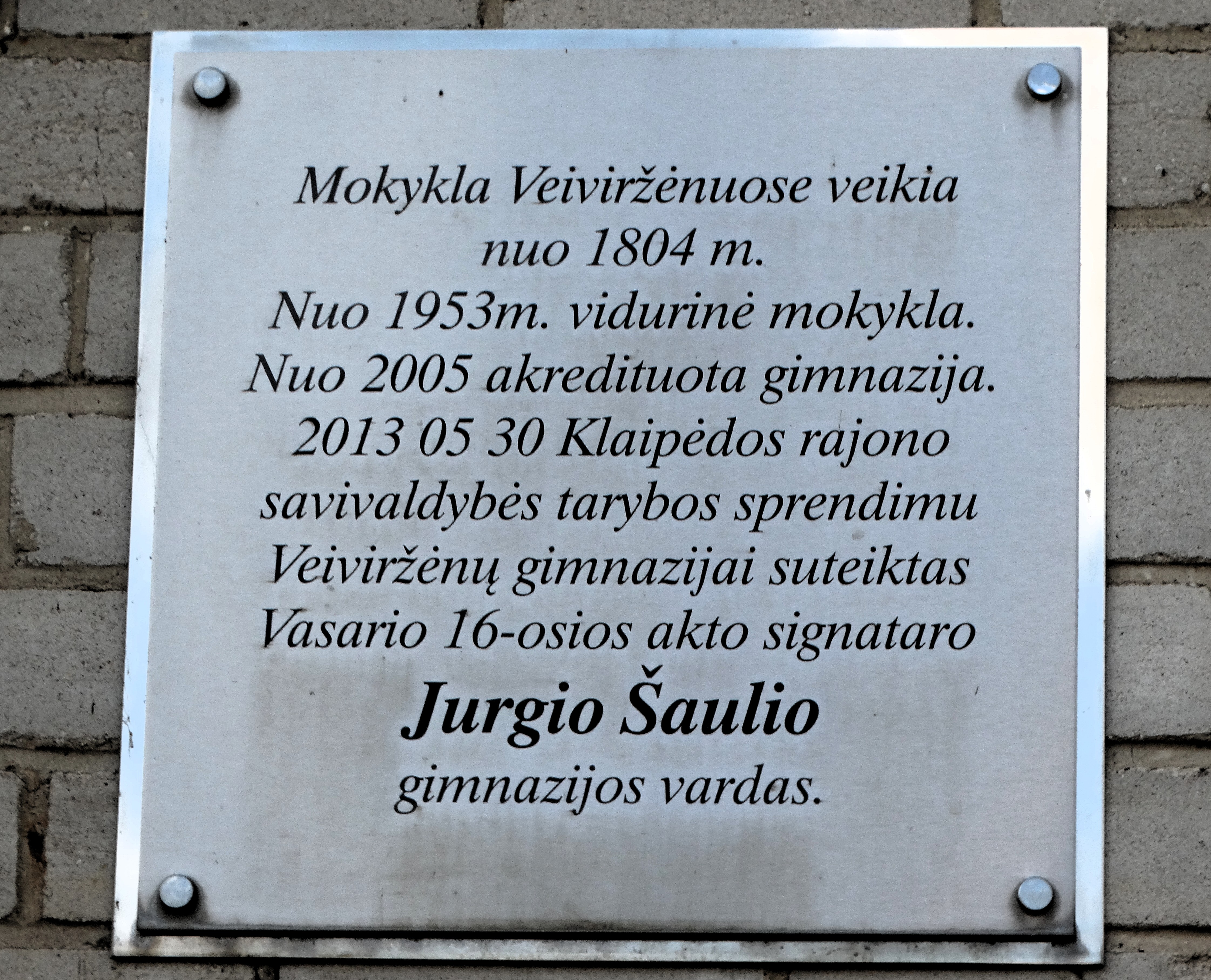 Gymnasium, Veiviržėnai, Klaipėda District, Lithuania